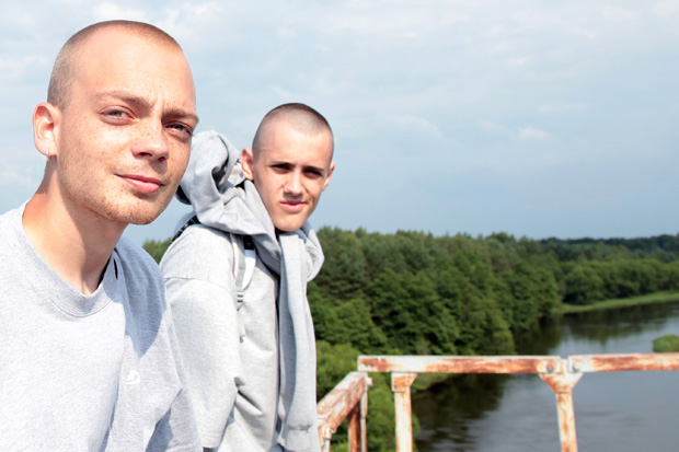 PANaNieba